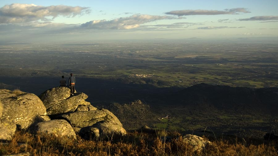 Sight from the top of the St. Vicente Peak, in the St. Vicente Mounts, Toledo (Spain).